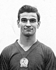 The Golden Team in 1953front row: Mihály Lantos, Ferenc Puskás, Gyula Grosicsback row: Gyula Lóránt, Jenő Buzánszky, Nándor Hidegkuti, Sándor Kocsis, József Zakariás, Zoltán Czibor, József Bozsik, László Budai